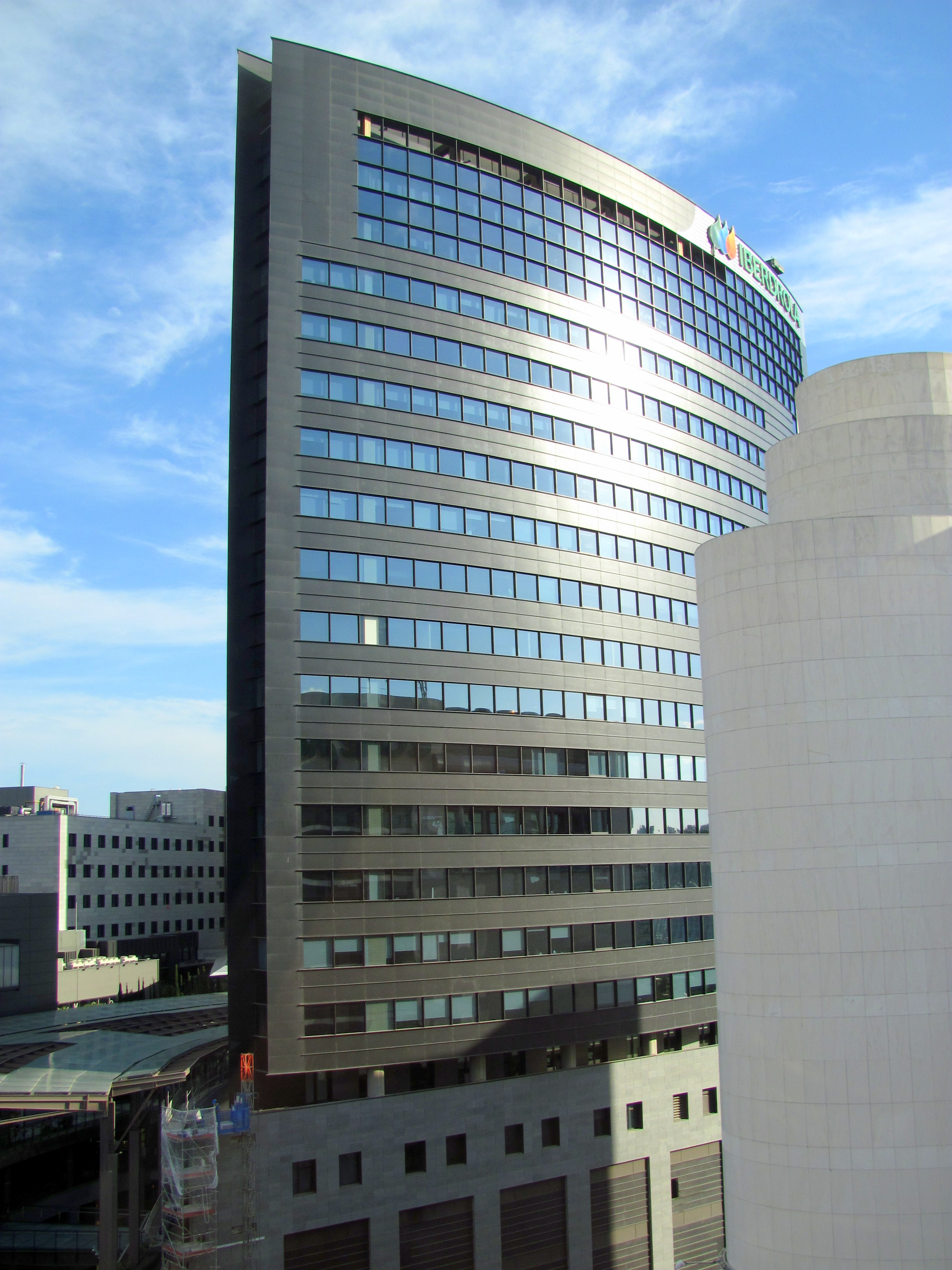 Modern skyscraper in Calle de Menorca, seat of Iberdrola, called Aqua Multiespacio.